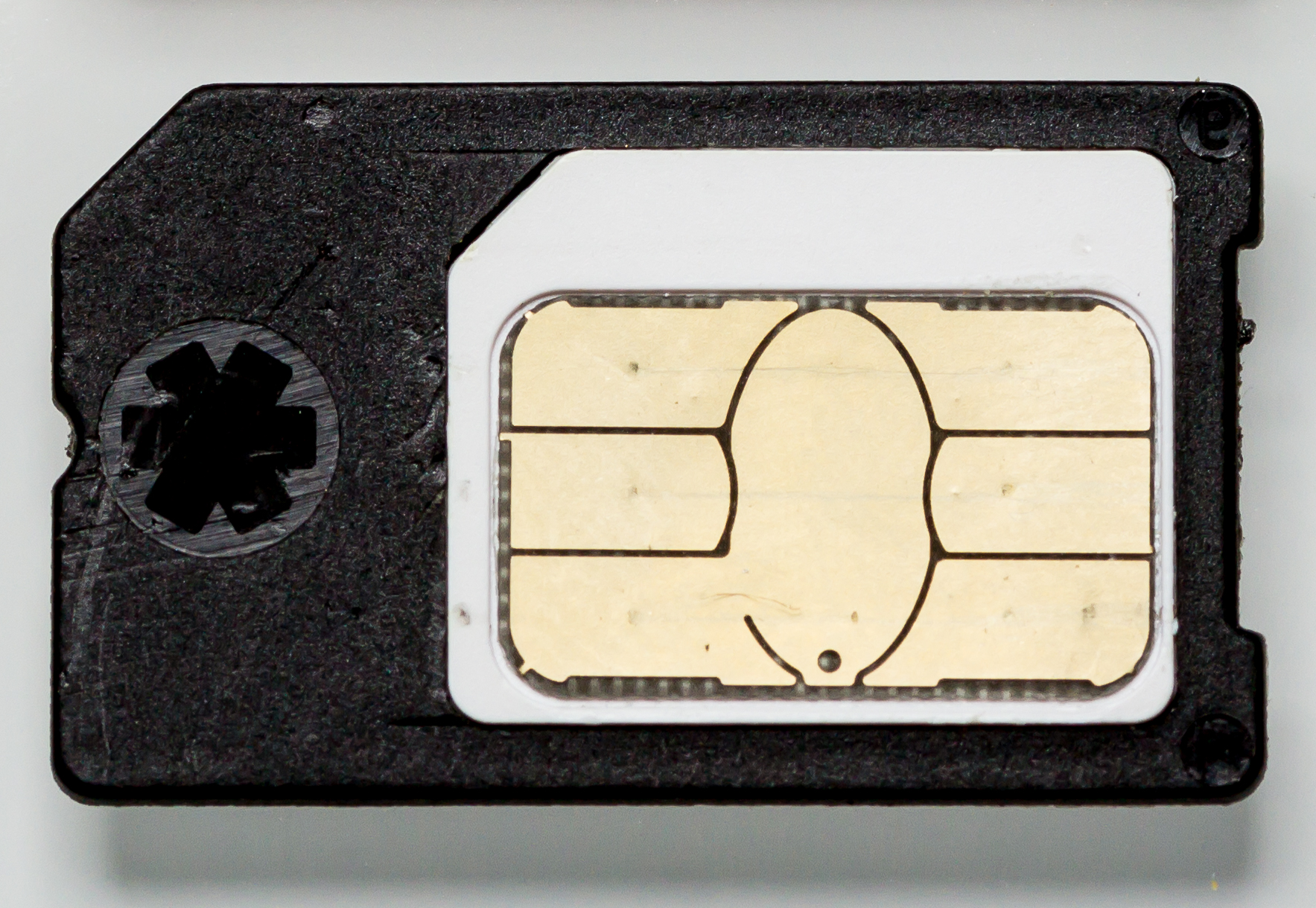 Micro-SIM card in a Mini SIM card adapter. The shown SIM-adapter is patented by Cairon Group GmbH, Germany